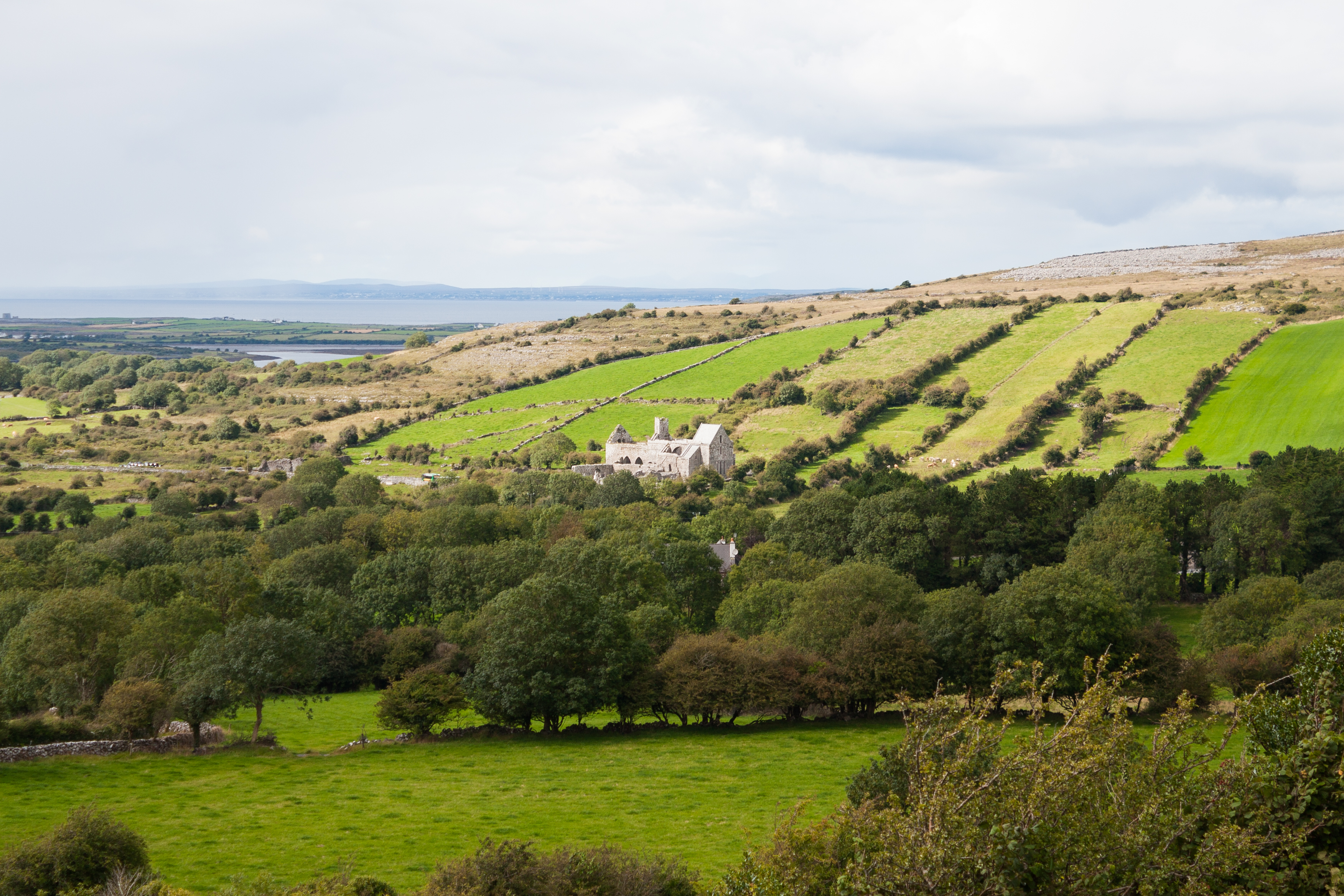 View from the Oughtmama townland to Abbey Hill and Corcomroe Abbey, looking north-west.